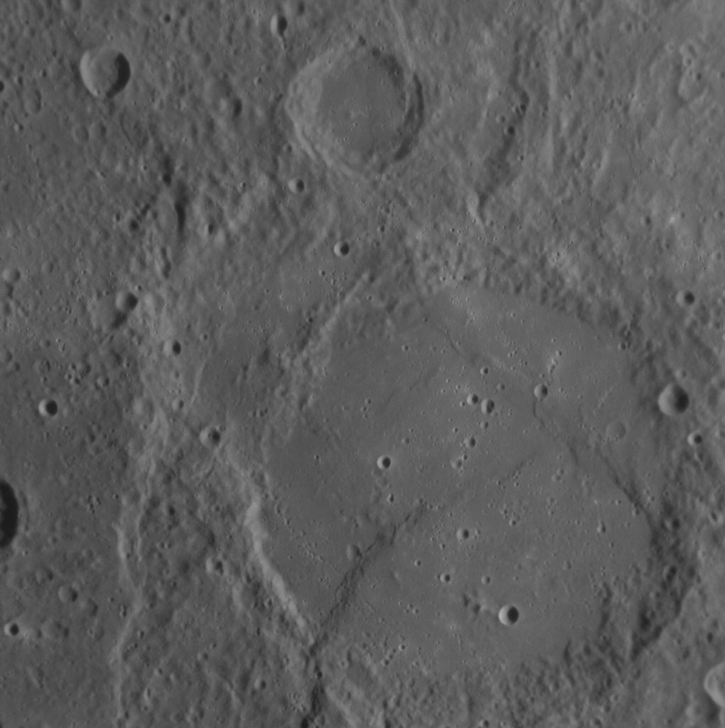 Travers crater on Mercury. MESSENGER Narrow Angle Camera. North is at top. Emission Angle: 15.0 Incidence Angle: 68.2 Latitude: -27.1 Longitude: 29.8 Phase Angle: 83.2